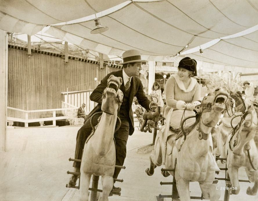 Elliott Dexter & Ethel Clayton in Maggie Pepper - publicity still (cropped)